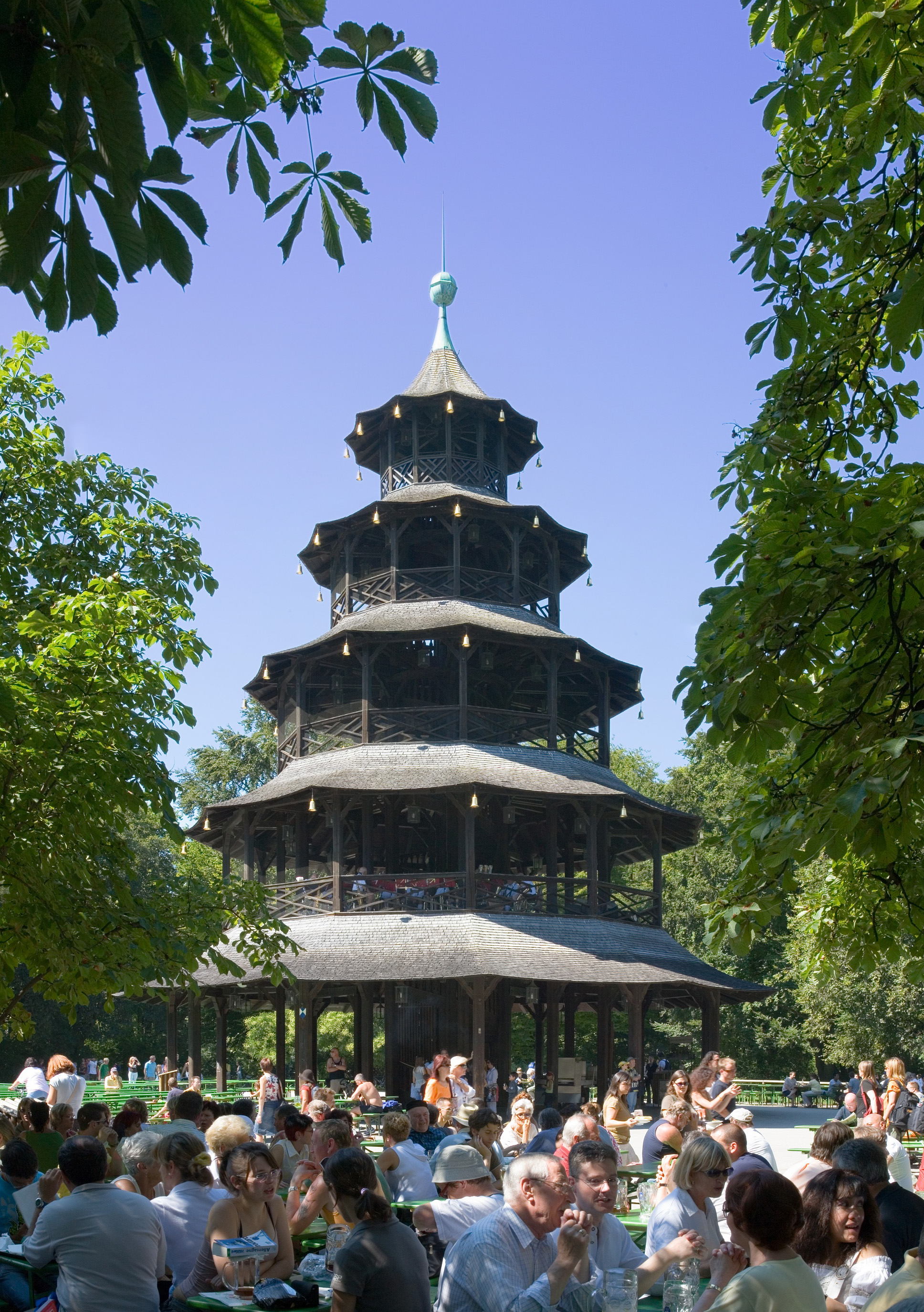 The Chinese Tower in the English Gardens, Munich, Germany. This image is a 3 segment vertical panorama taken by myself with a Canon 5D and 24-105mm f/4L IS.